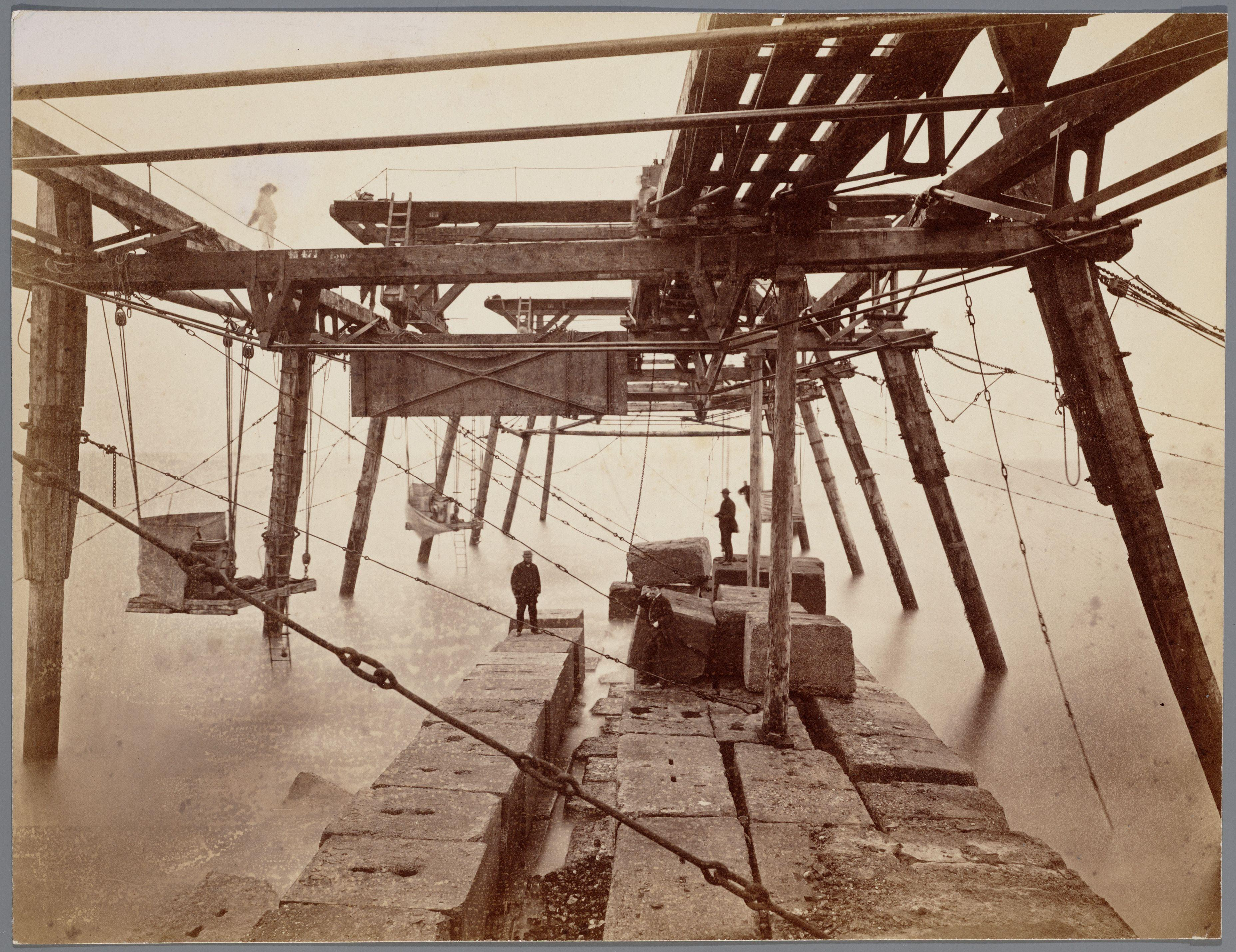 Description Noorderzeehoofd with storm damage The harbor heads at IJmuiden under construction. Storm damage to the Noorderzeehoofd. This is number 4 in a series of photos that Pieter Oosterhuis made of the construction of the North Sea Canal. Series: Oosterhuis, Construction of the North Sea Canal Generated with Dememorixer